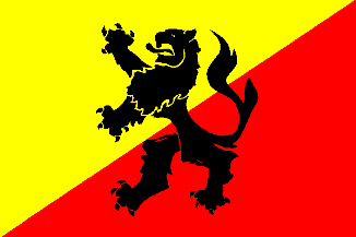 Flag of Tegelen (former municipality, now part of Venlo)